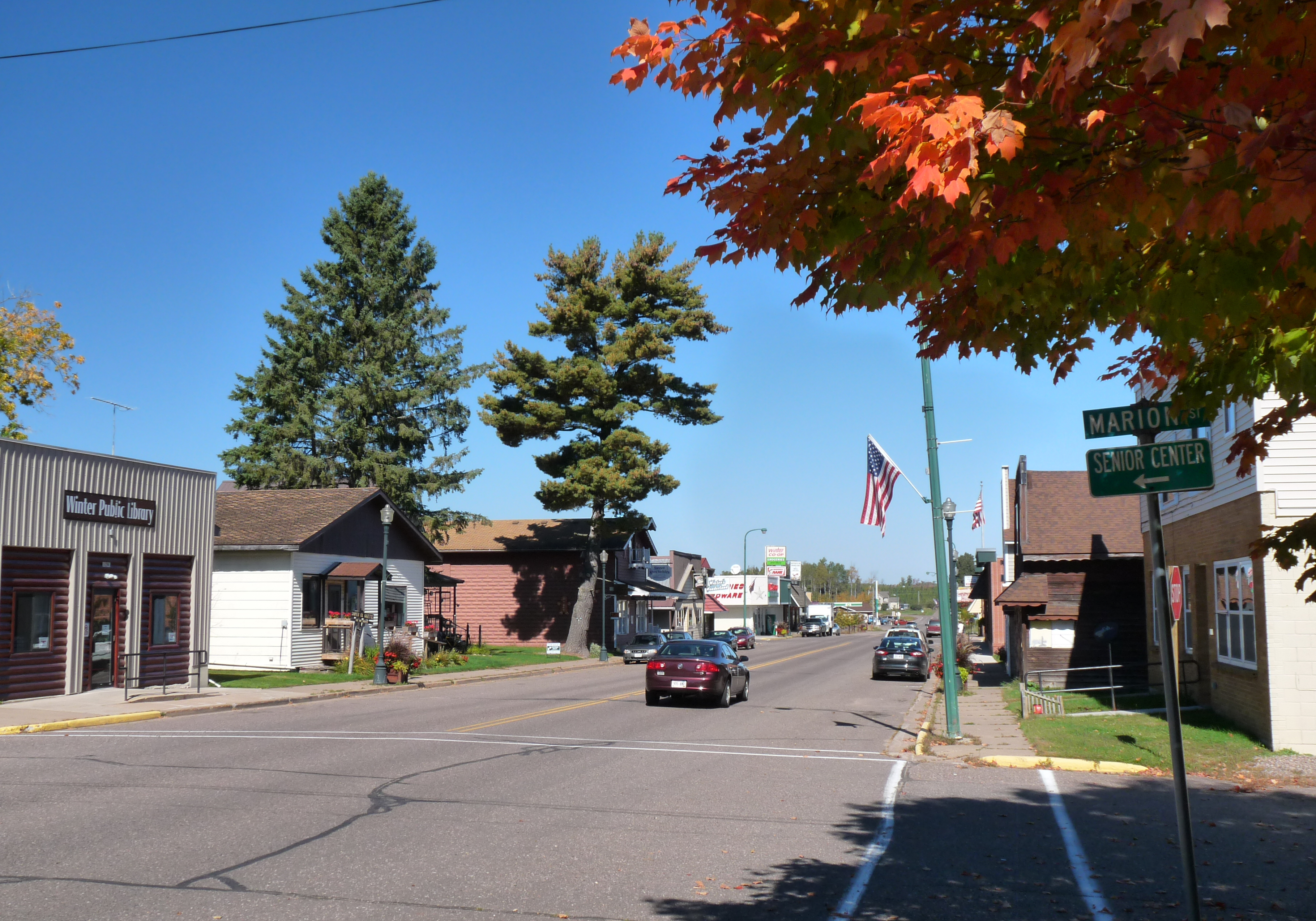 Looking north, up the Main Street of Winter, a village in northern Wisconsin.